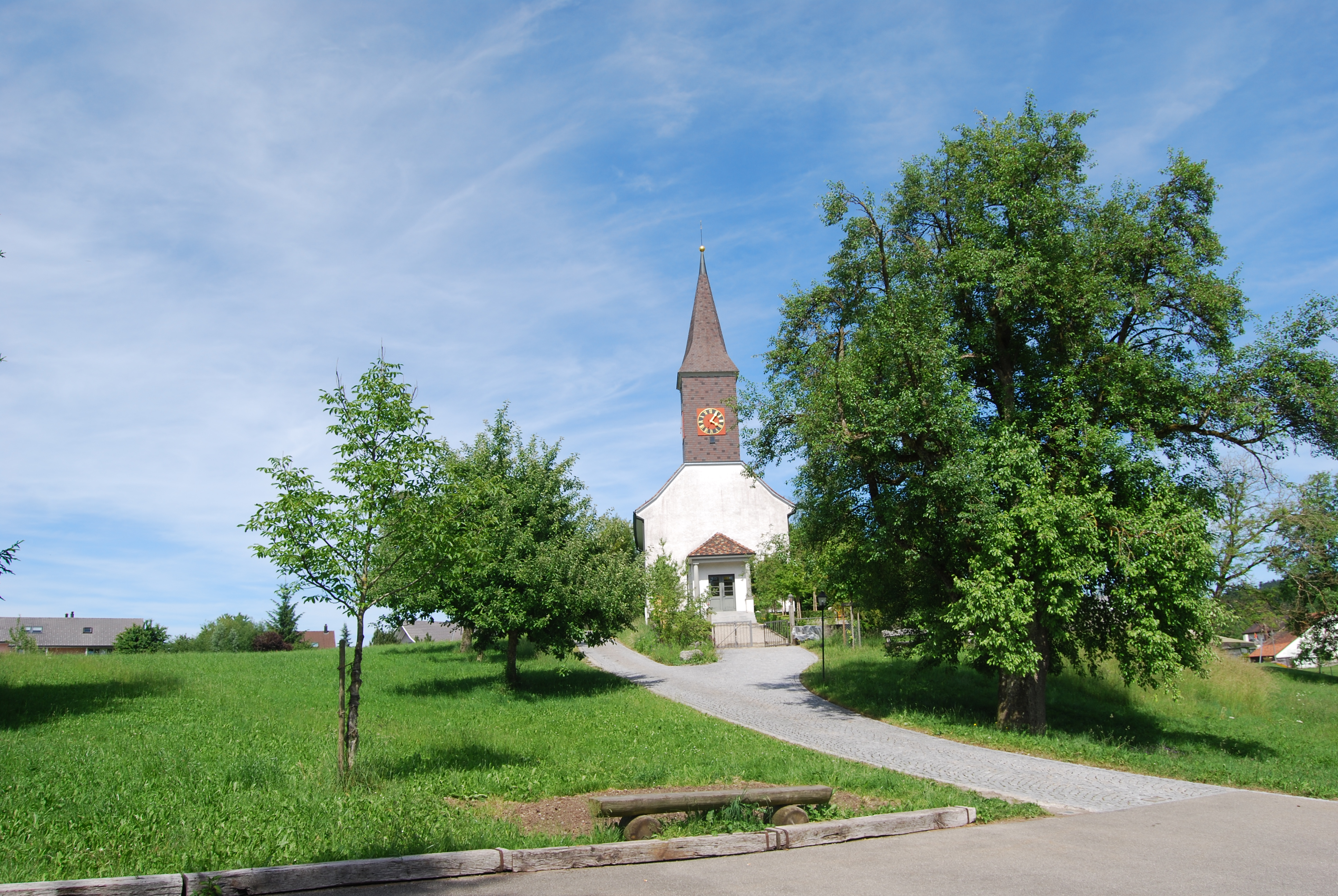 Protestant church of Braunau, canton of Thurgovia, Switzerland